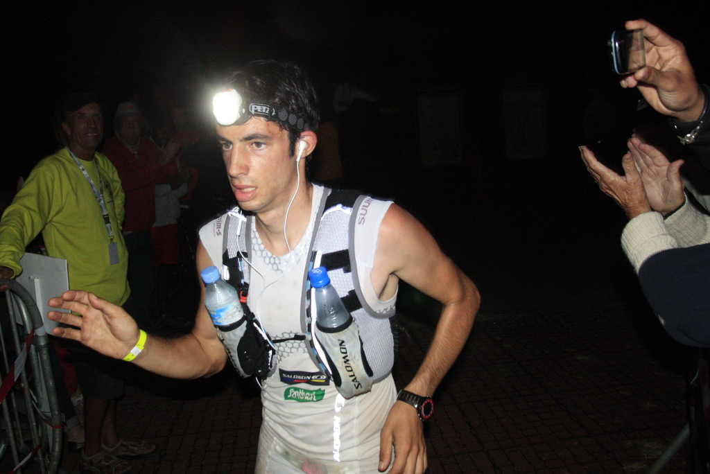 Kilian Jornet at the Colorado place (upside Saint Denis) at the end of Grand Raid 2010.